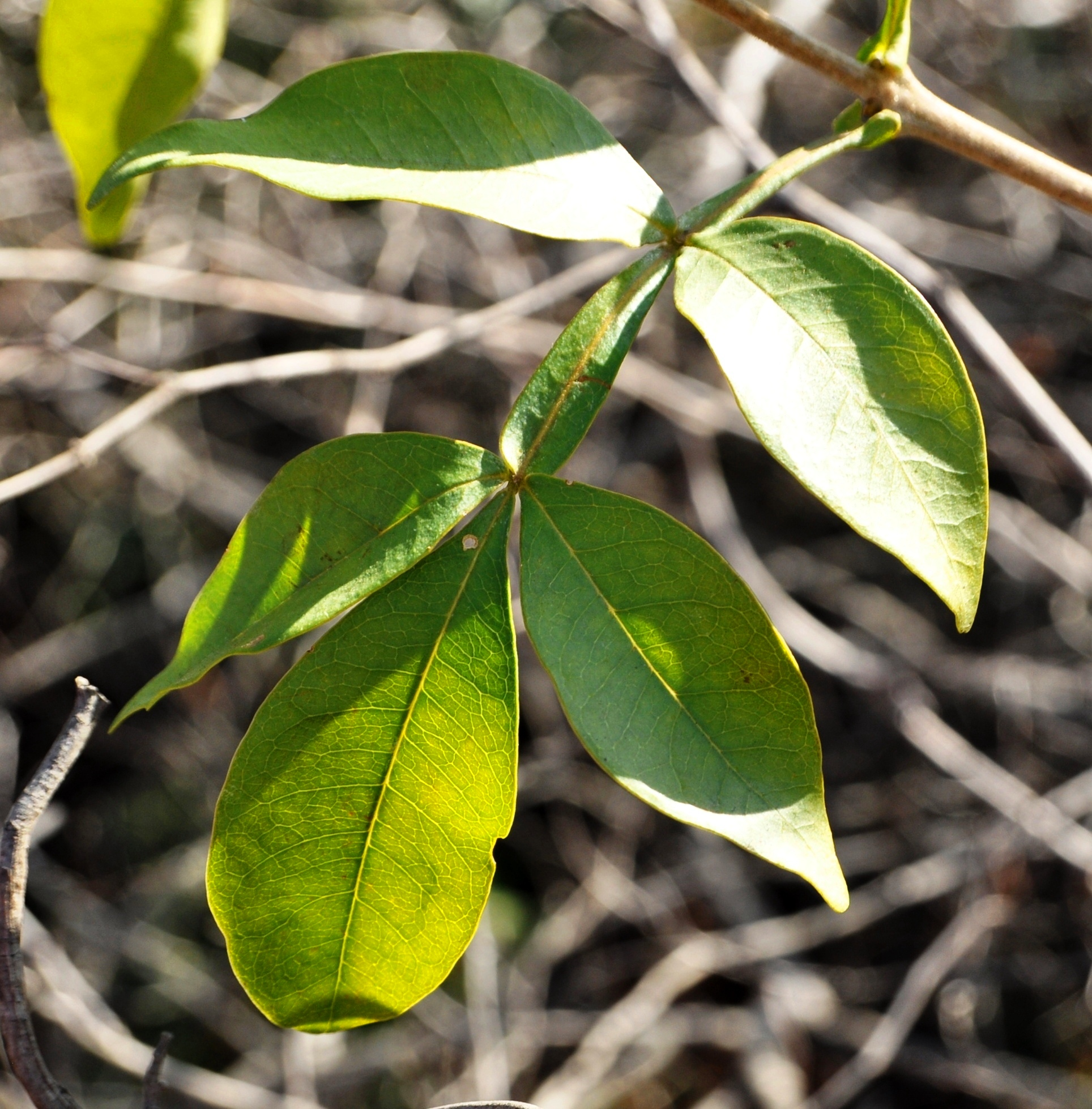 Leaf of a Wild jasmine in the Lowveld National Botanical Garden, Nelspruit, South Africa